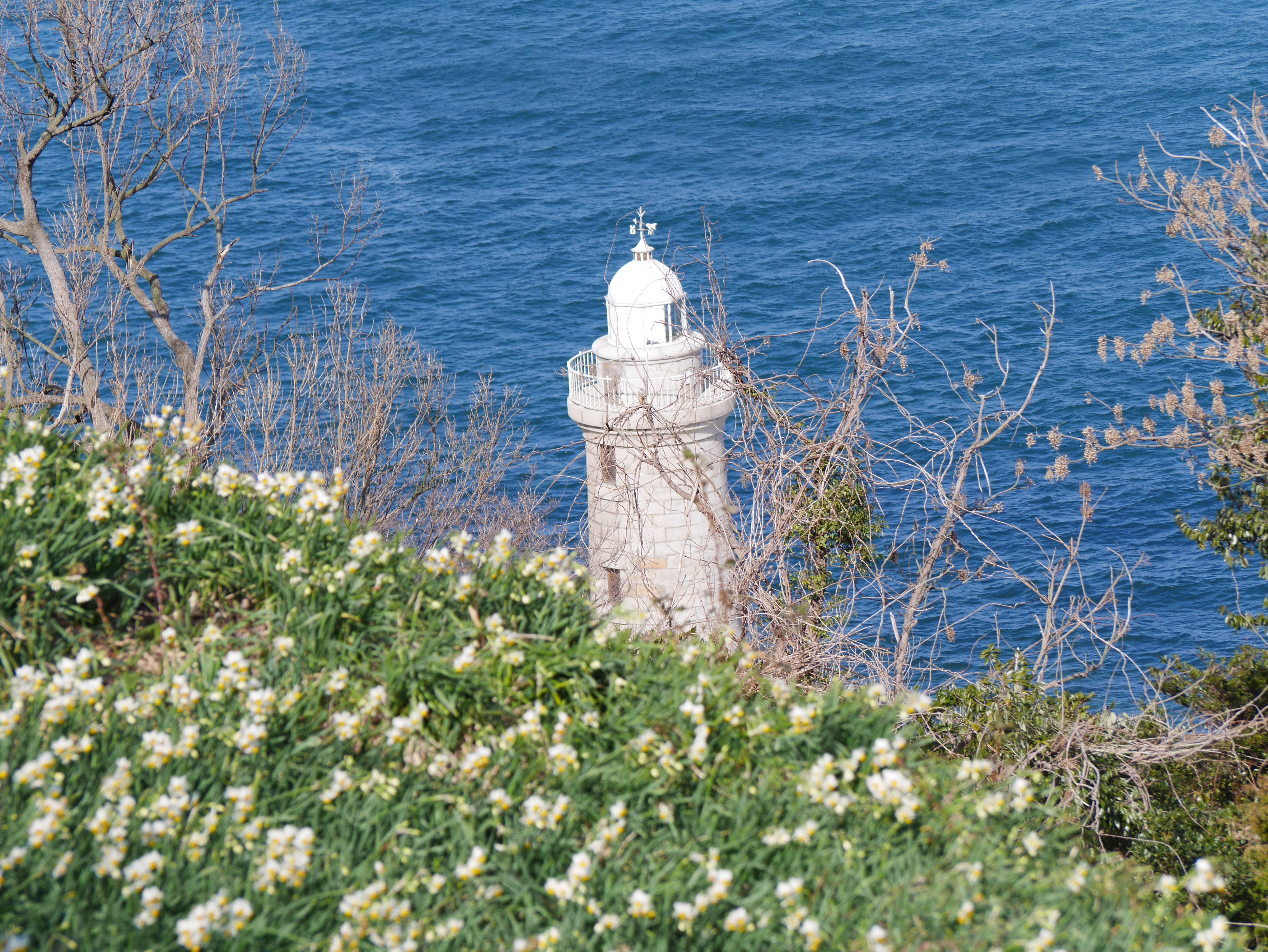 Ogijima Lighthouse and daffodil